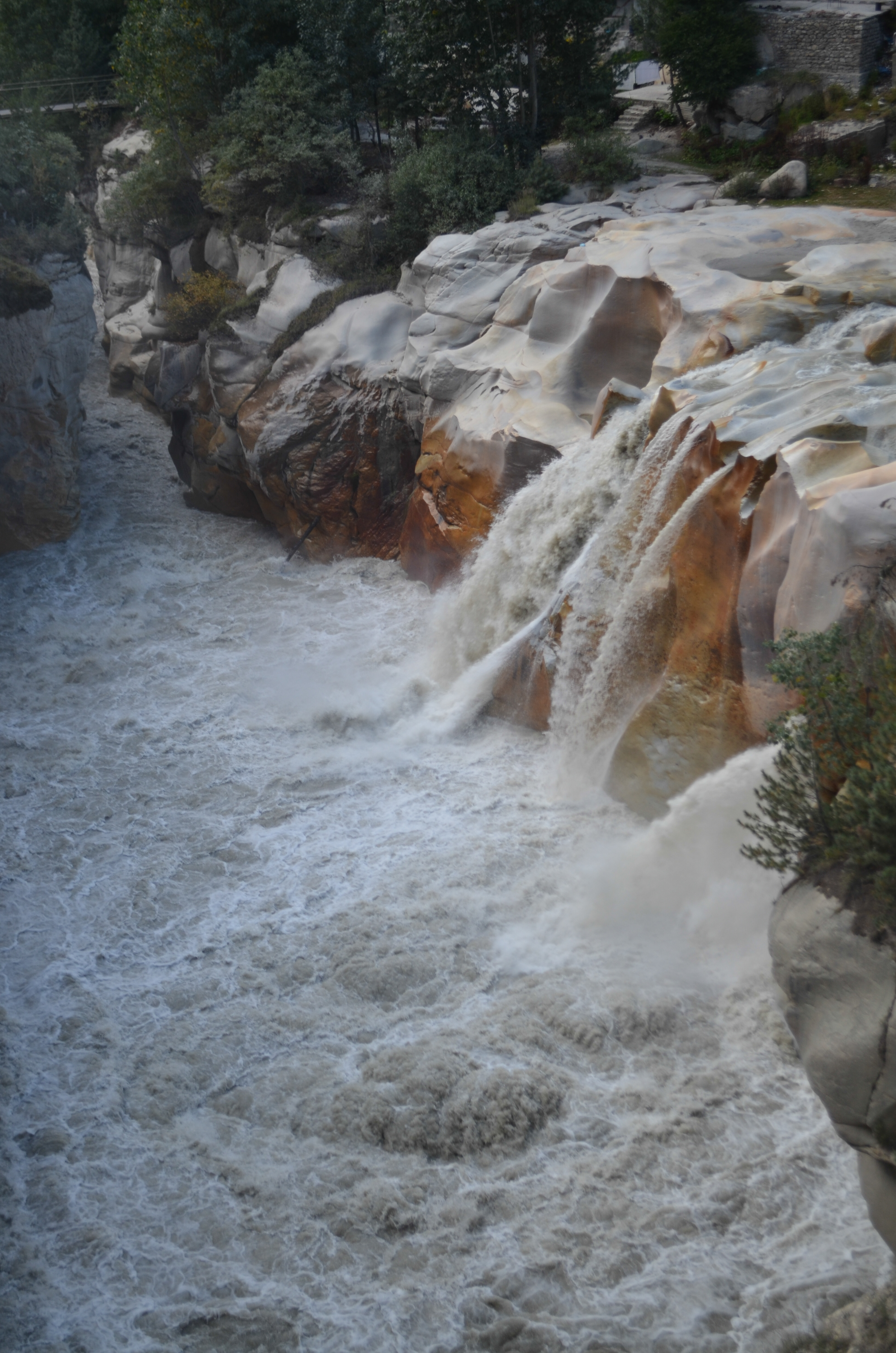 The image of Surya Kund waterfall was taken in the project WTK 2015 at Gangotri.